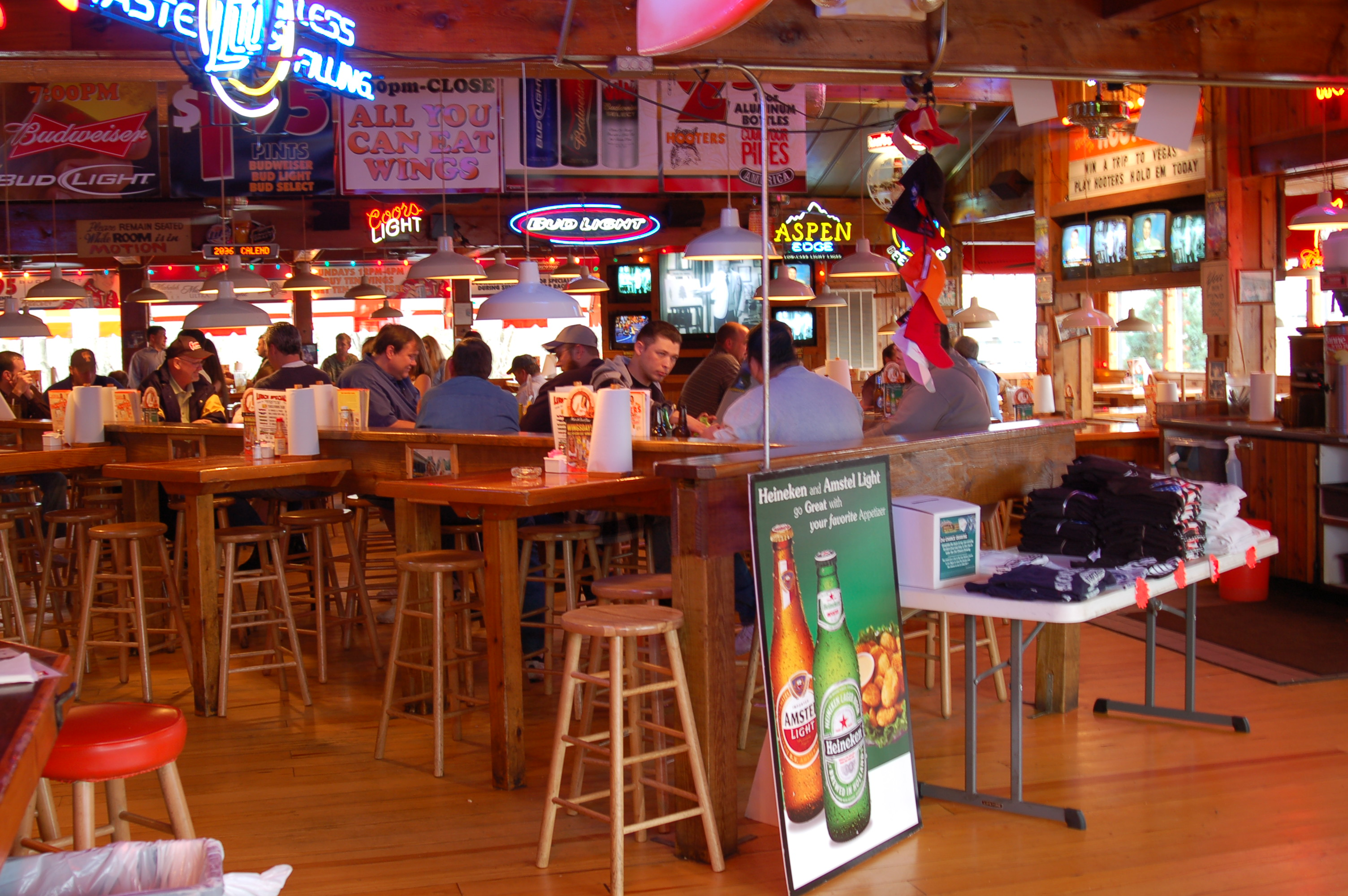 Inside of a Hooters restaurant in Chattanooga, Tennessee during lunch hour. Jason Trew photo.